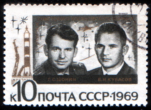 USSR stamp, "Soyuz-6", 1969, 10k.